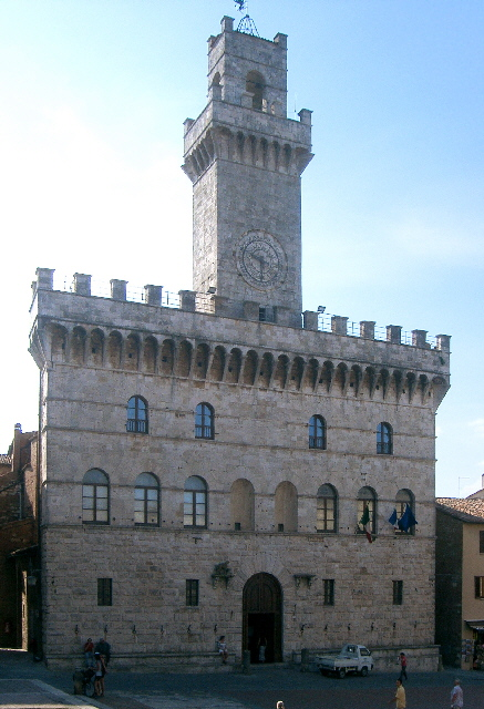 Palazzo Communale in Montepulciano. View from north.